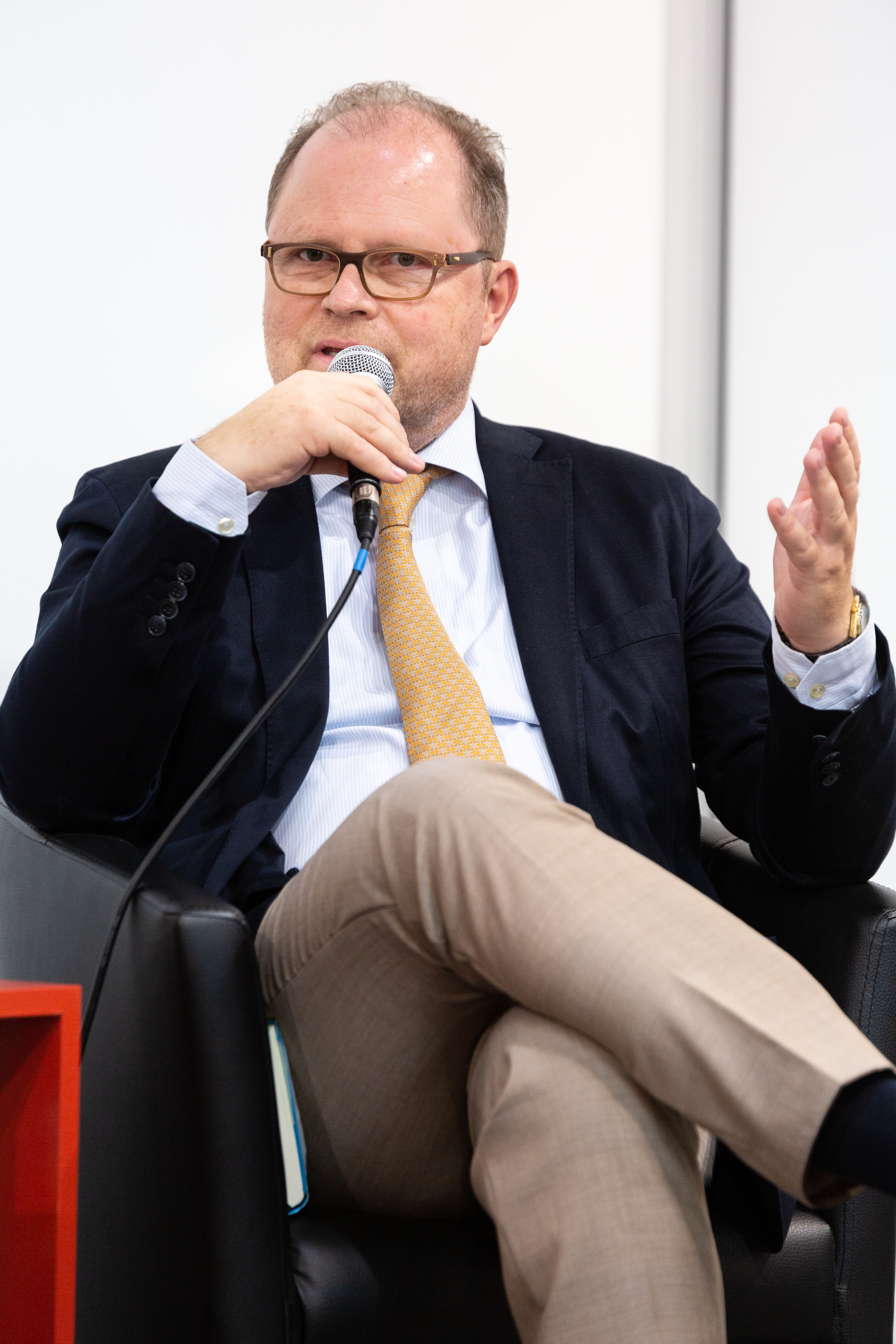 The politician Christian Lange at the Frankfurt Book Fair 2018